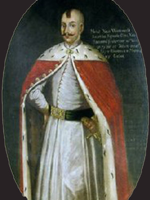 Mihail Wiśniowiecki